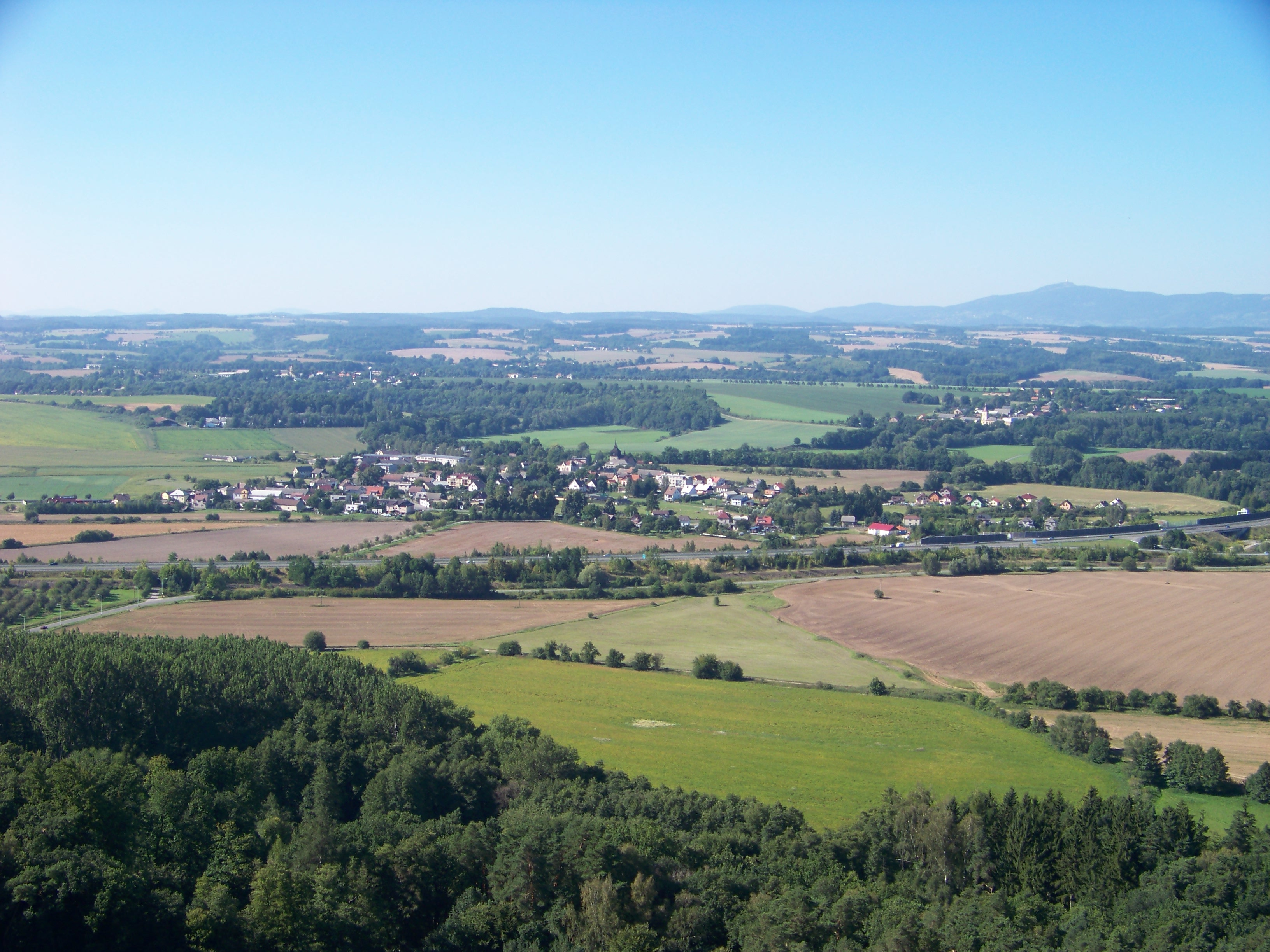 Březina, Mladá Boleslav District, Central Bohemian Region, the Czech Republic. A view from Příhrazy Rocks.